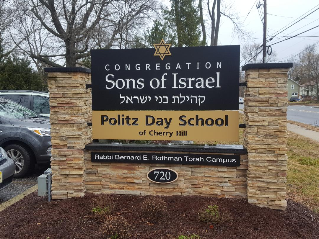 Congregation Sons of Israel at 720 Cooper Landing Rd in Cherry Hill, New Jersey on February 5, 2020.